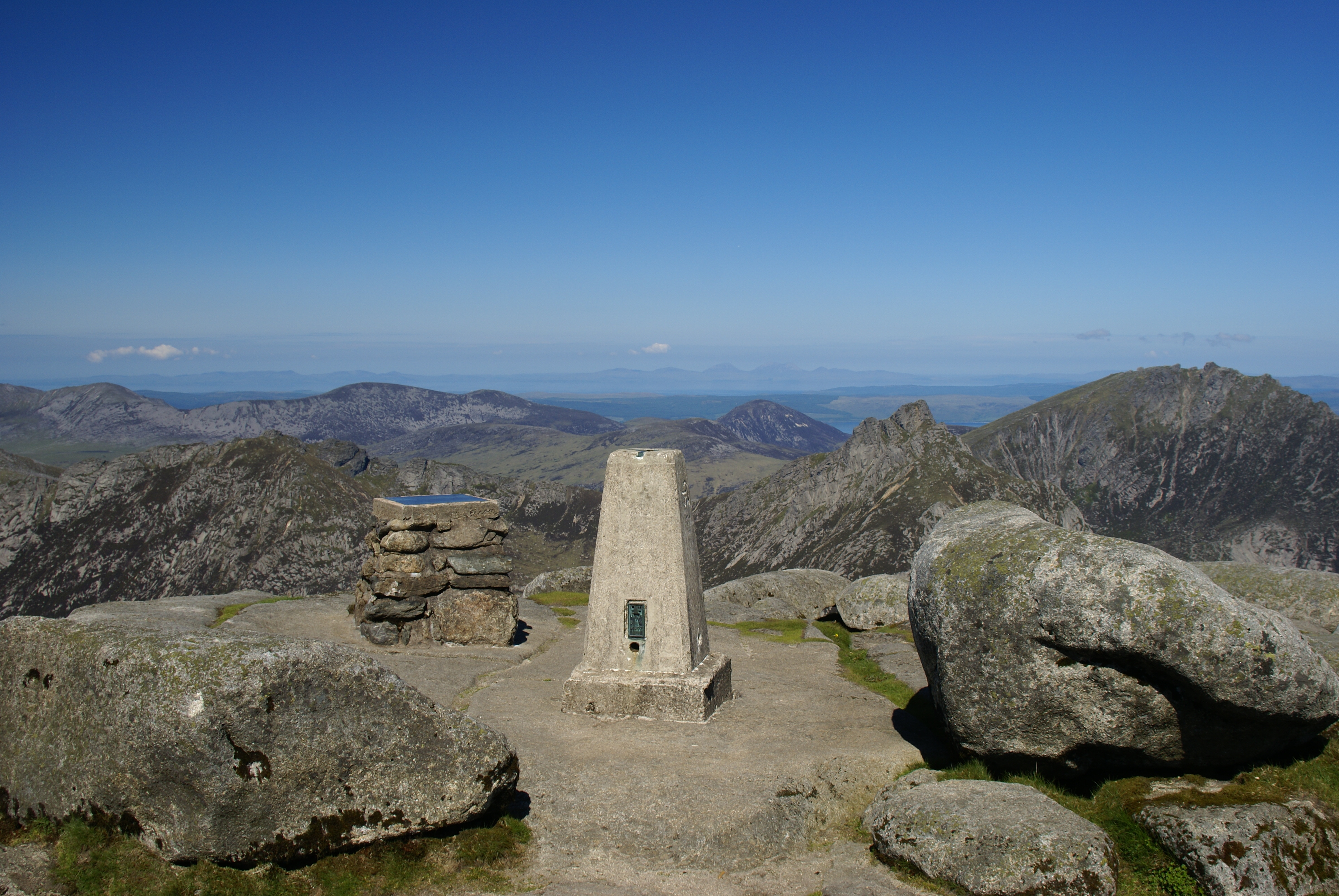 Summit view from Goat Fell, Isle of Arran. The Paps of Jura are visible in the distance.